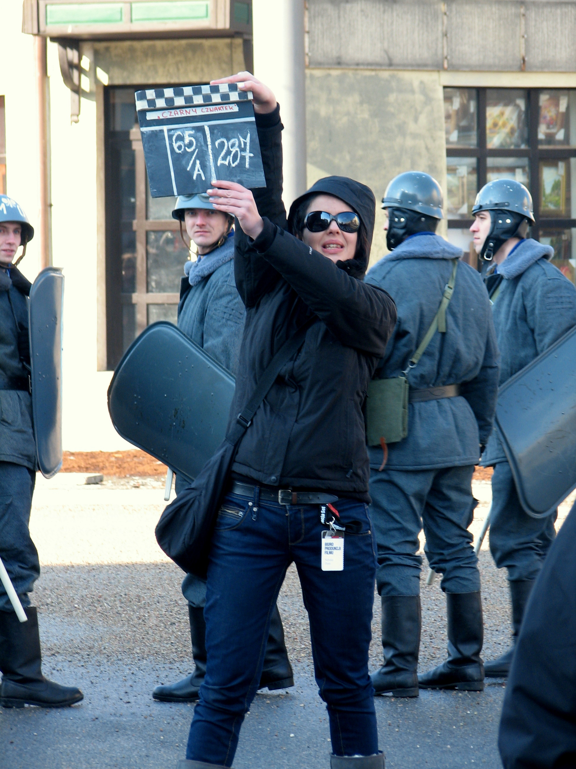 Filming of "Black Thursday" at the intersection of Świętojańska Street, Gdynia and 10 Lutego Street in Gdynia. People on this picture are actors, background actors, other workers of film crew or workers of subcontractors. "Black Thursday" is a film about Polish 1970 protests.